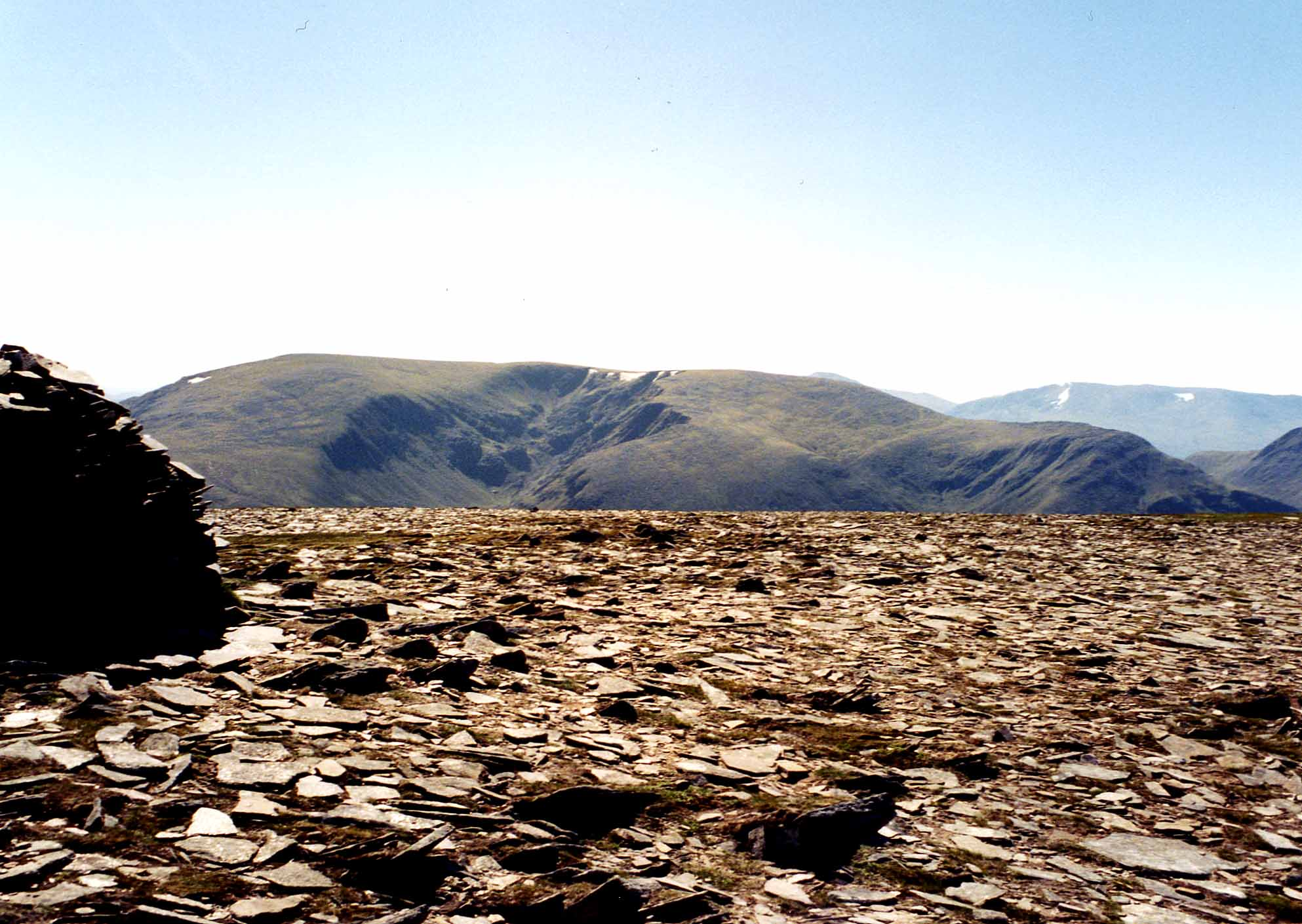 View of Maoile Lunndaidh from Moruisg